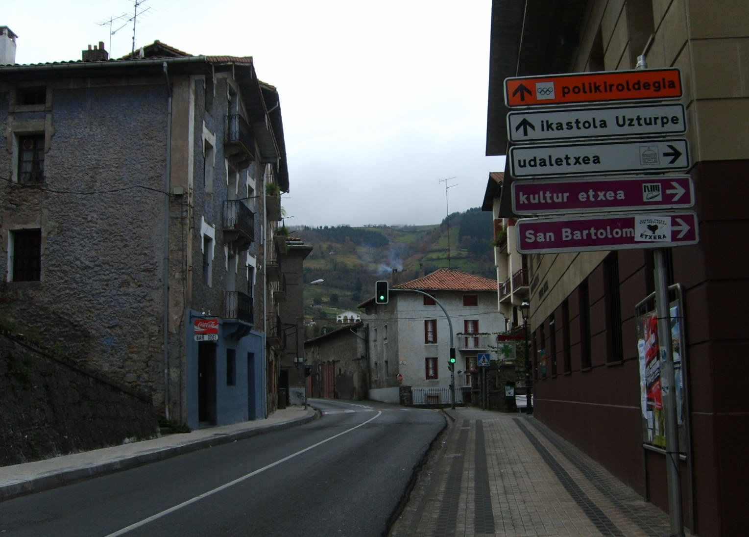 Ibarra, Guipúzcoa, Basque Country, Spain